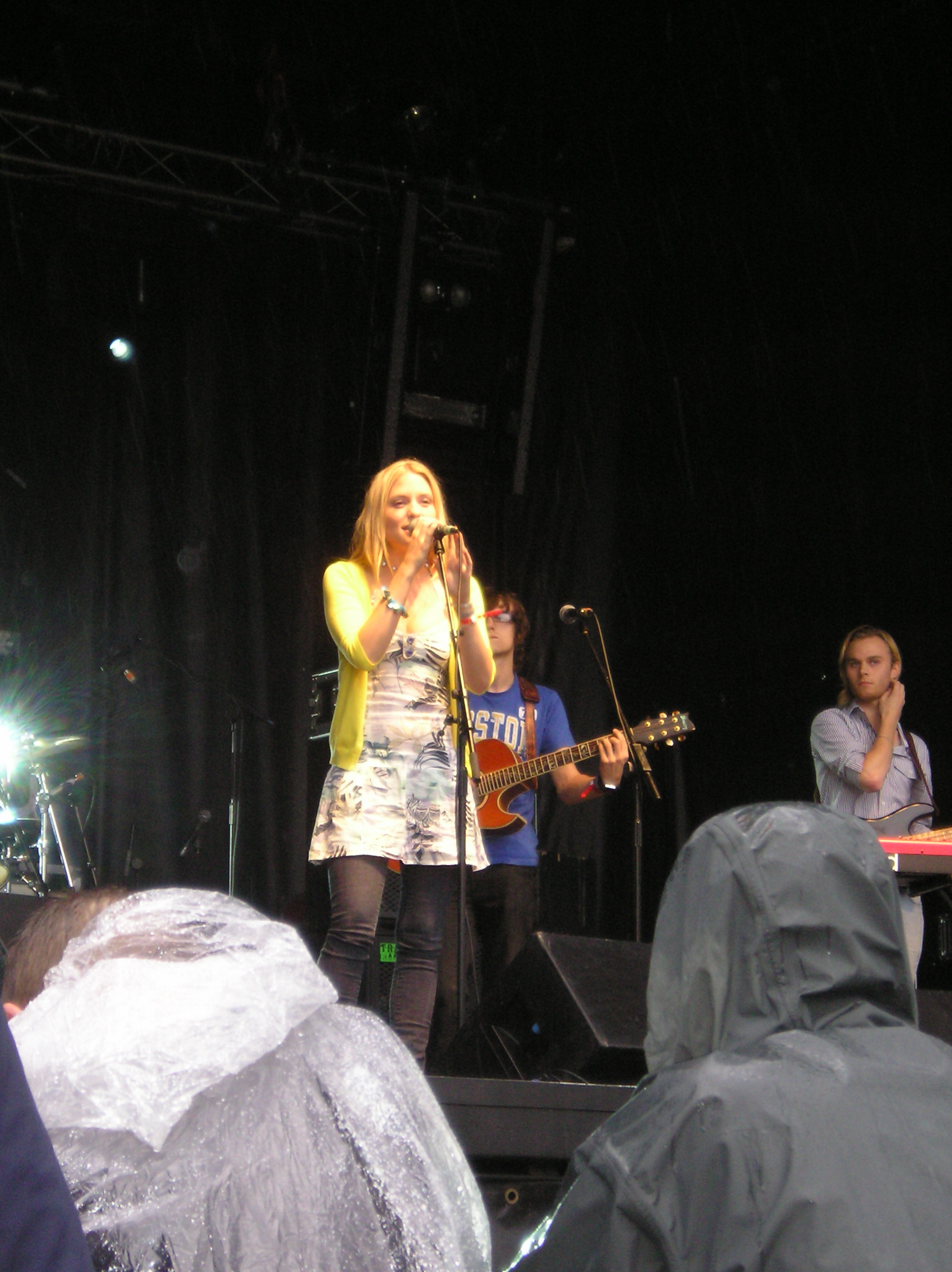 Laura Critchley performs on the MySpace Stage at Knowsley Hall Music Festival in June 2007